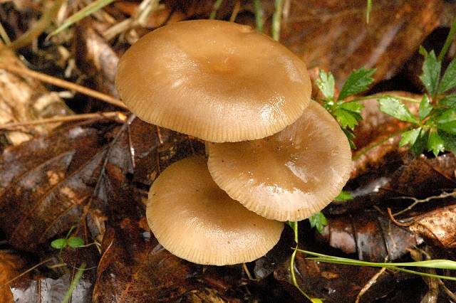 Fayodia pseudoclusilis from Commanster, Belgium. If you think this is a different taxon, please contact James Lindsey.